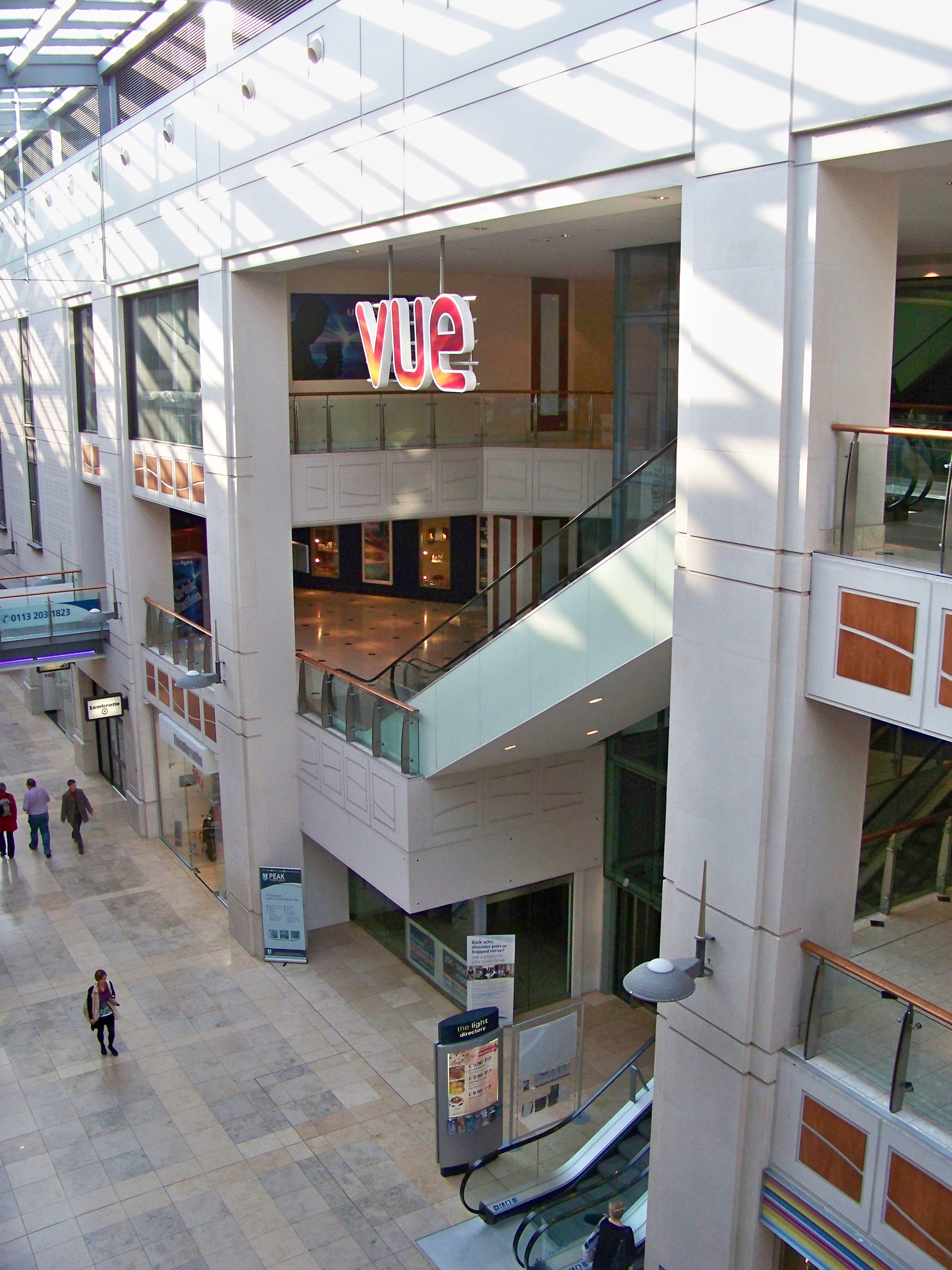 The VUE multiplex cinema in the Light, Leeds, UK. The cinema originally opened as a Ster Century. Taken on the afternoon of Tuesday 15th September 2009.